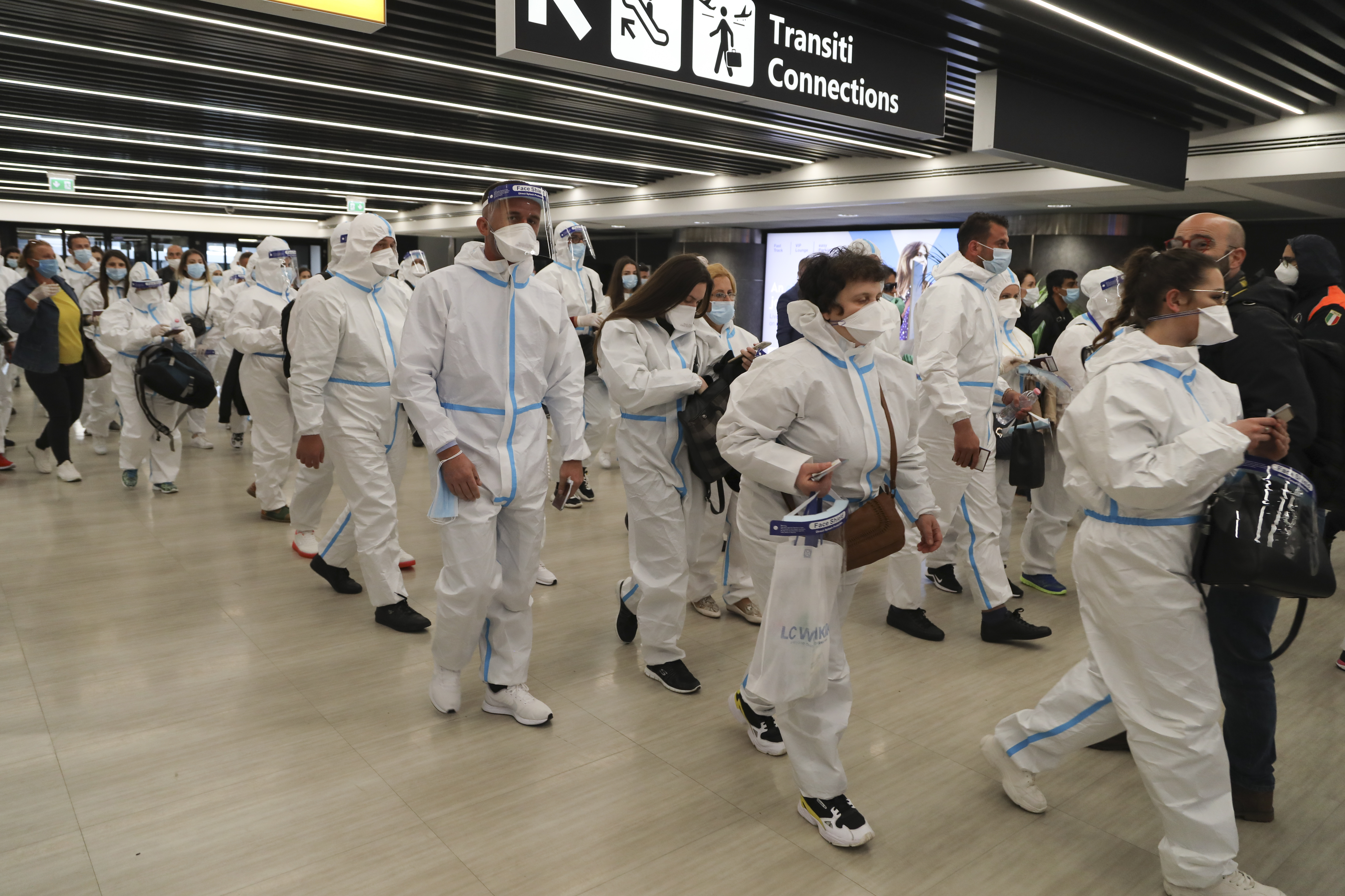 Albanians physicians.